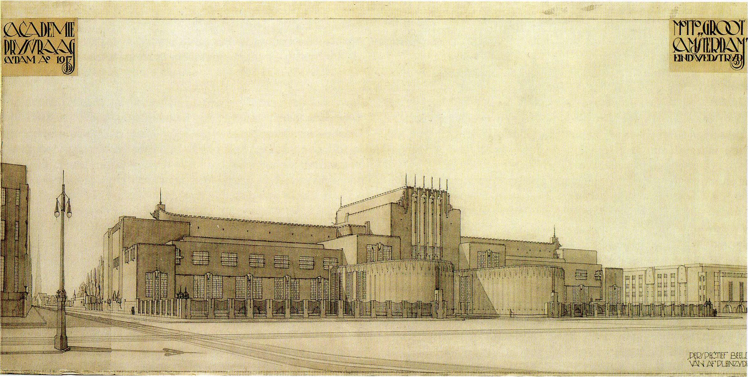 Michel de Klerk. Competition design for an Academy of Fine Arts, Amsterdam. 1918. Rotterdam, Netherlands Architecture Institute.